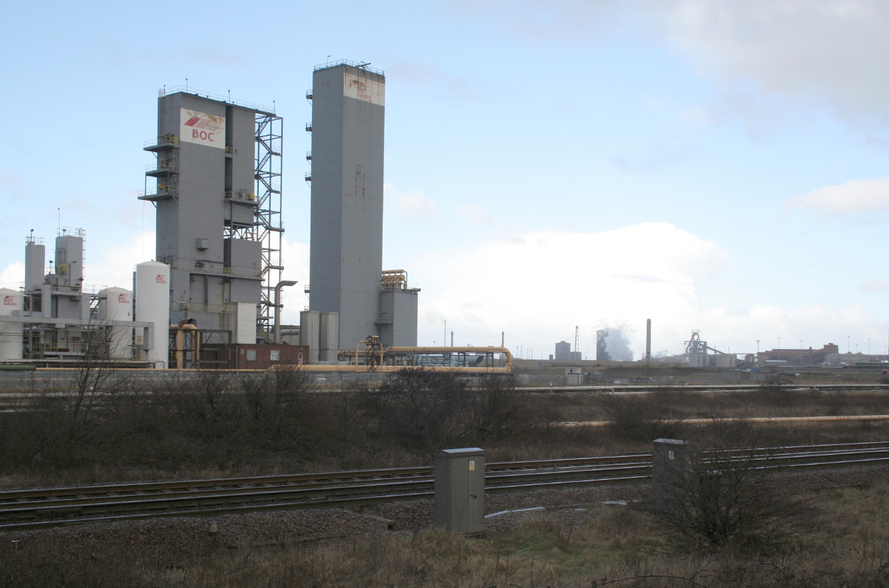 Industrial Teesside In the foreground the British Oxygen gases plant, with the Corus Redcar blast furnace complex in the distance.